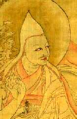 Lozang Gyatso